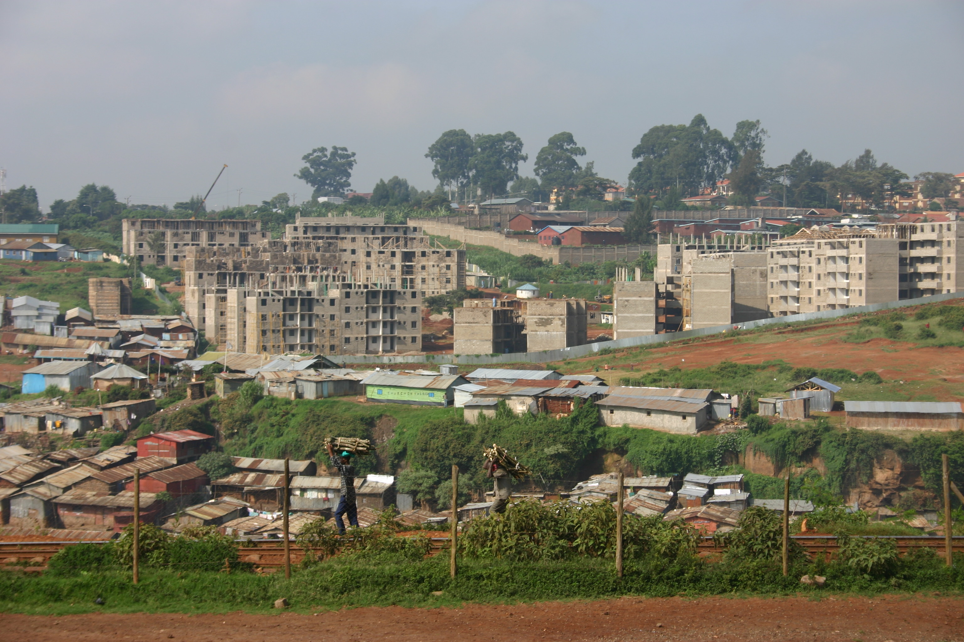 those high rises in the back are being built by the government in the hopes of eventually tearing down Kibera. However, the rent in the high rises are far too expensive for most residents. Welcome to gentrification, folks. It's in Africa, too. Original description by: genvessel